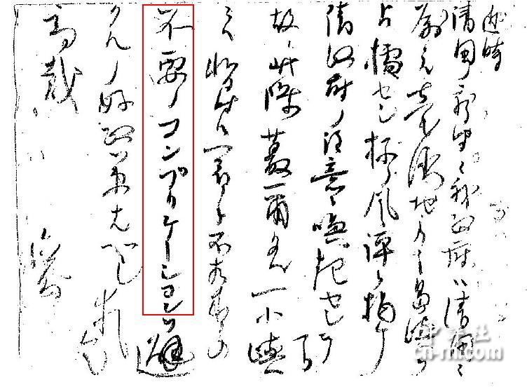 A letter from Inoue Kaoru, Japanese Minister of Foreign Affairs in 1885 to the Internal Affairs Ministry, saying that a Chinese newspaper had previously claimed that Japan intended to occupy the islands near Taiwan of Qing Dynasty (later known as the Senkaku Islands in Japan and Diaoyu Islands in China), and he advised that it would be better for Japan not to take any actions that may cause complications.